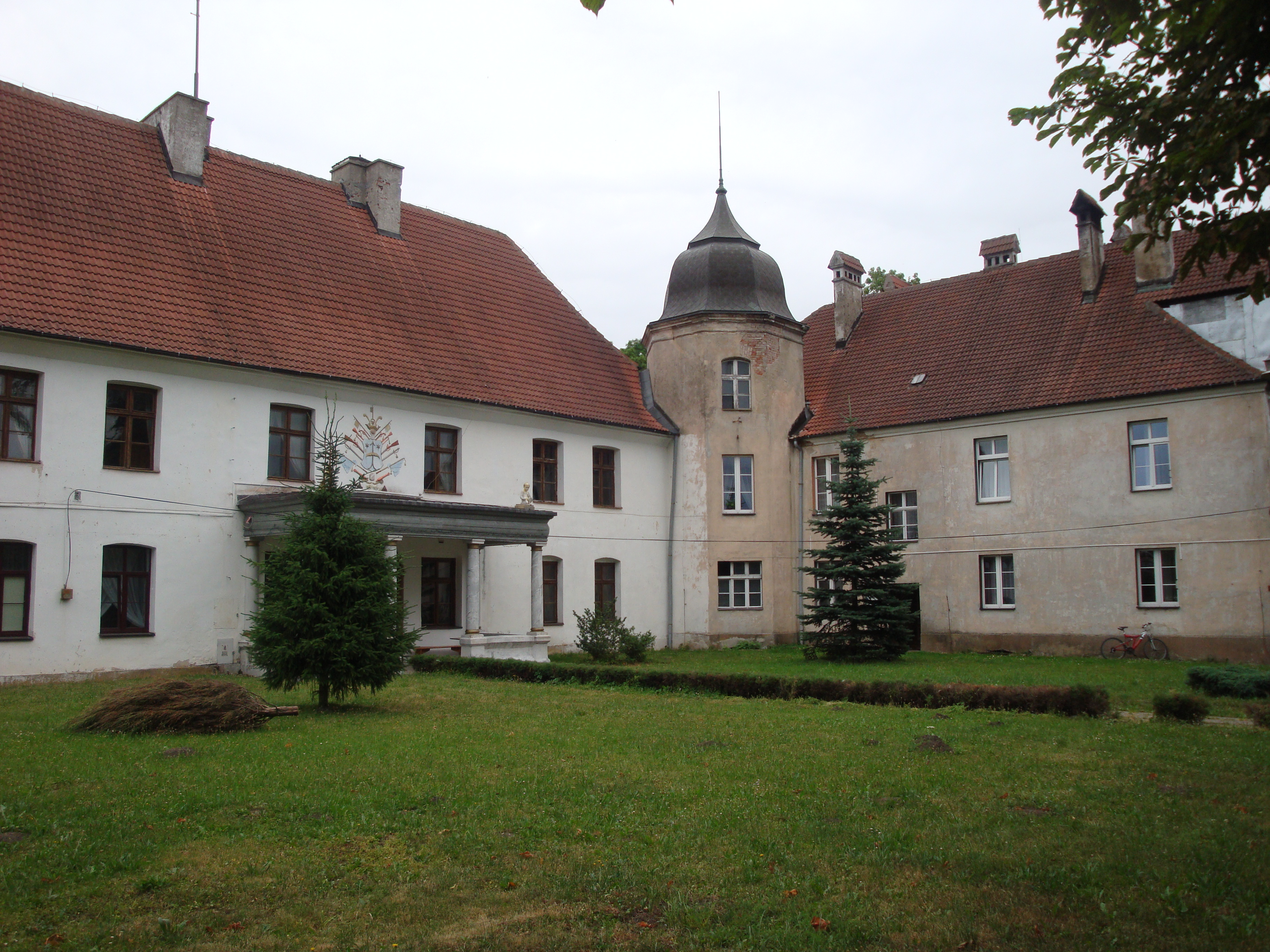 Charbrowo-village in Gmina Wicko, Poland. Manor house